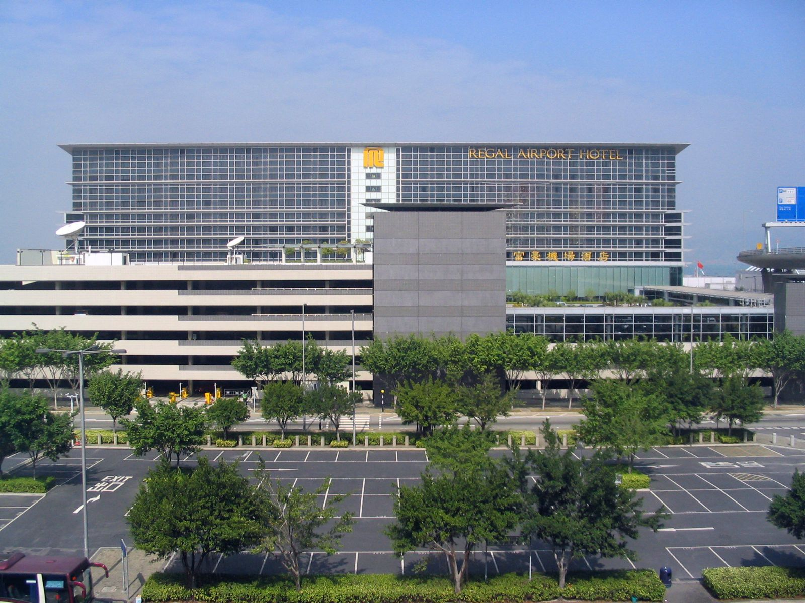 富豪機場酒店 Regal Airport Hotel